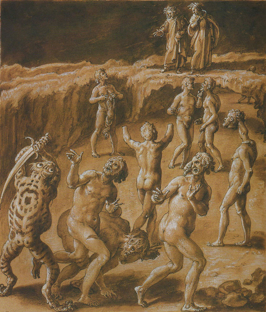 Illustration of Dante's Inferno, Canto 28